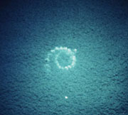 An aerial view of a bubble net created by feeding humpback whales off Cape Fanshaw, Alaska. [1]